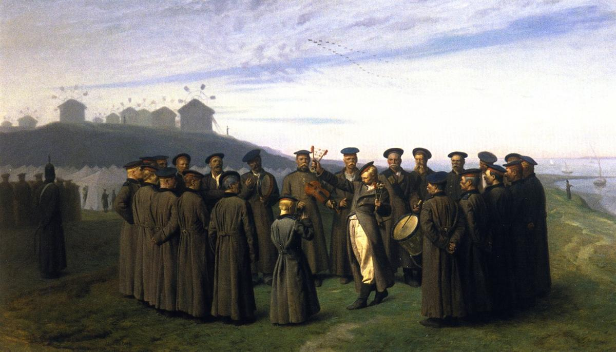 Recreation in a Russian Camp (Récréation dans un camp russe, 1855, by Jean-Léon Gérôme